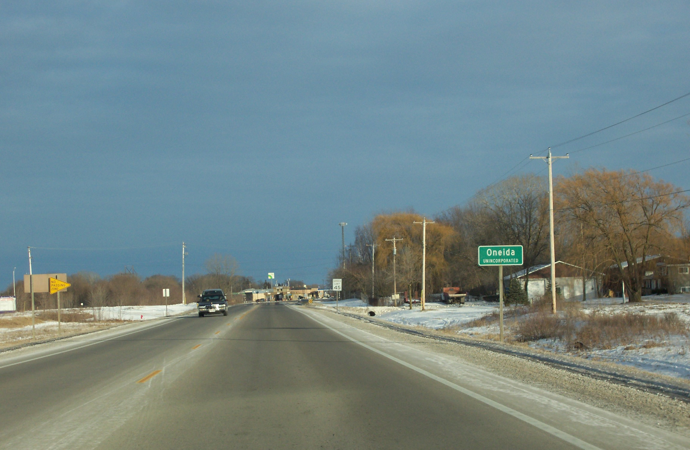 The DOT sign for Oneida, Wisconsin, USA. Travelling eastbound on Wisconsin Highways 54. Taken February 11, 2007 by myself. Cropped from original.